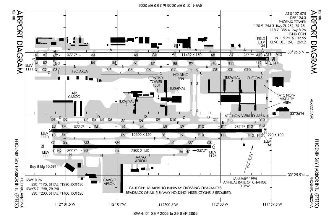 FAA airport diagram for Phoenix Sky Harbor International Airport (PHX) in Phoenix, Arizona, United States.